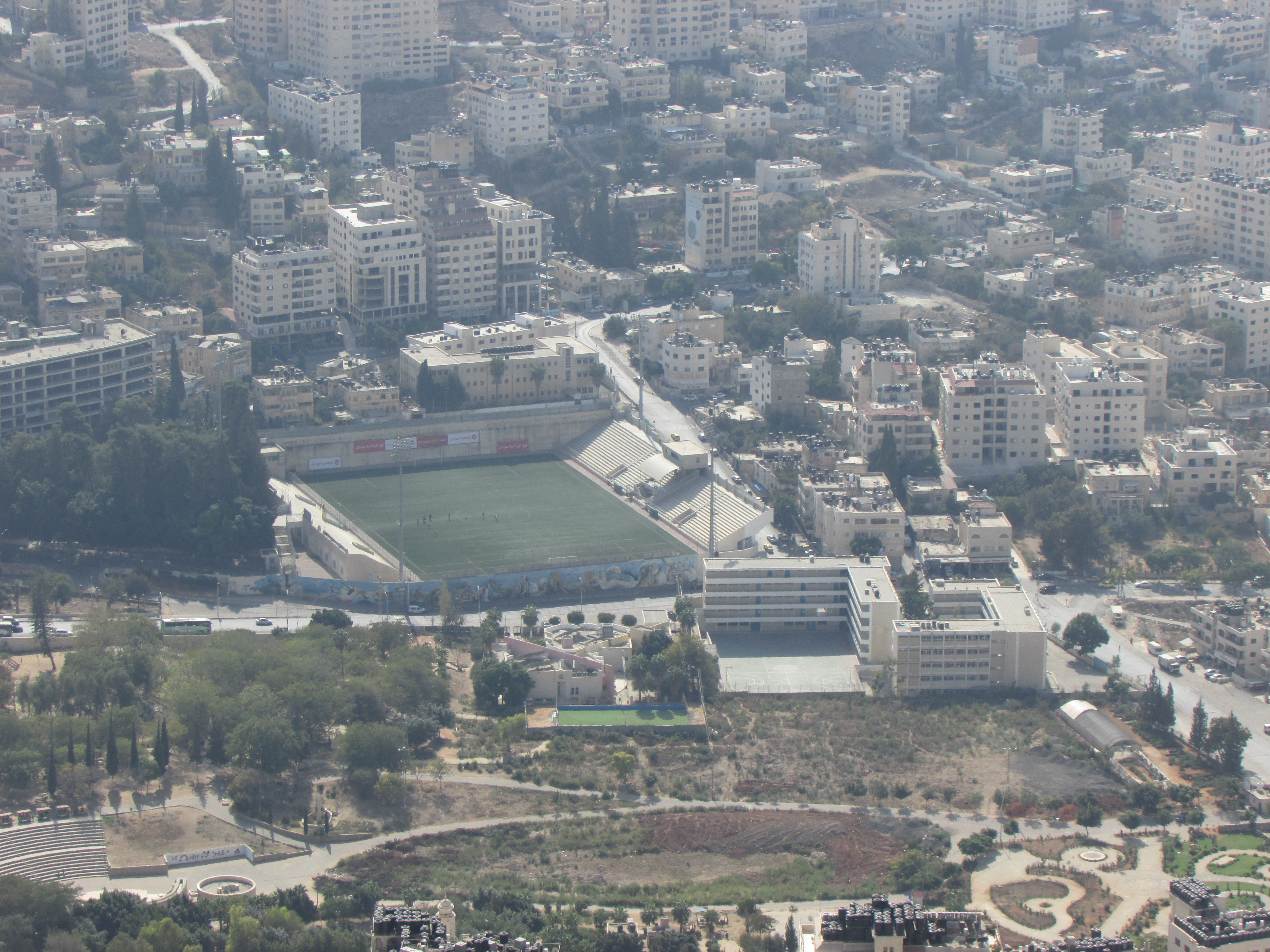 Nablus municipal stadium and surroundings.